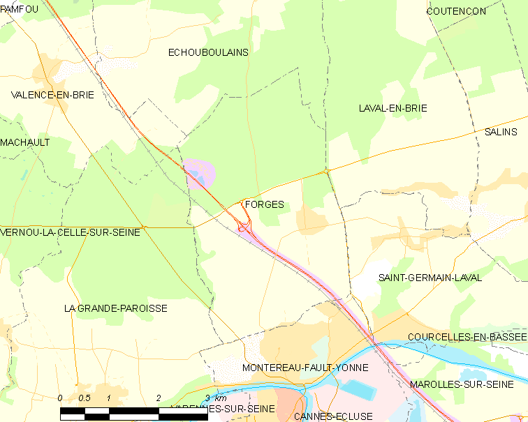 Map of French municipality Forges